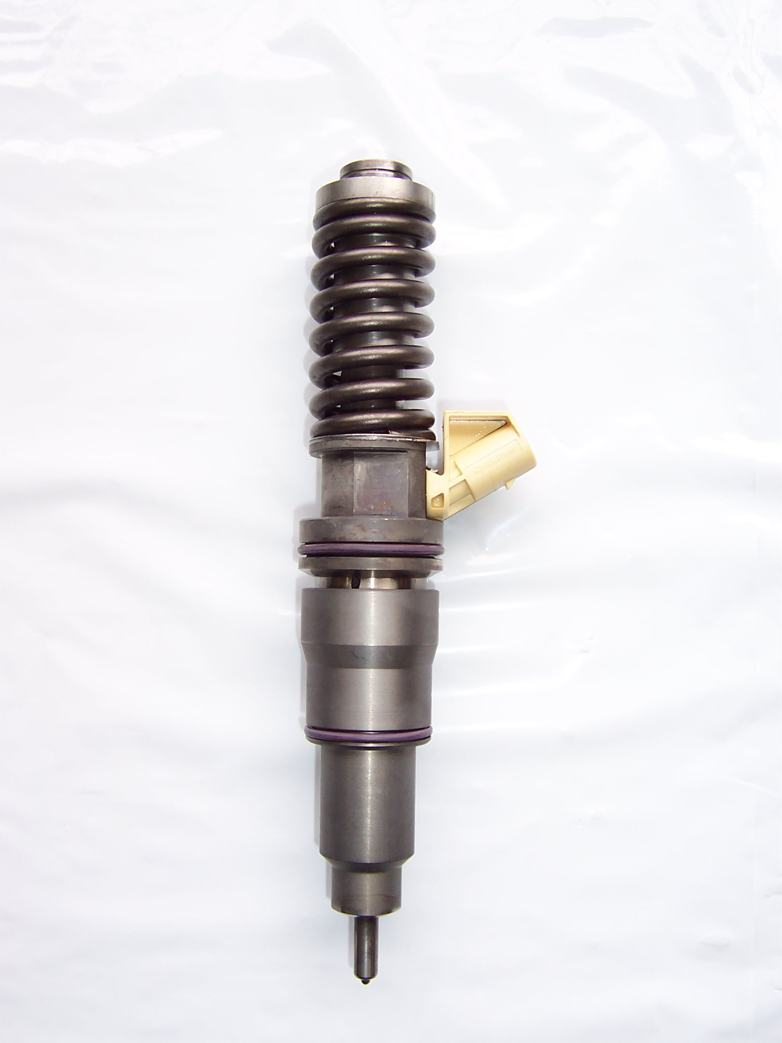 Unit Injector late prod type